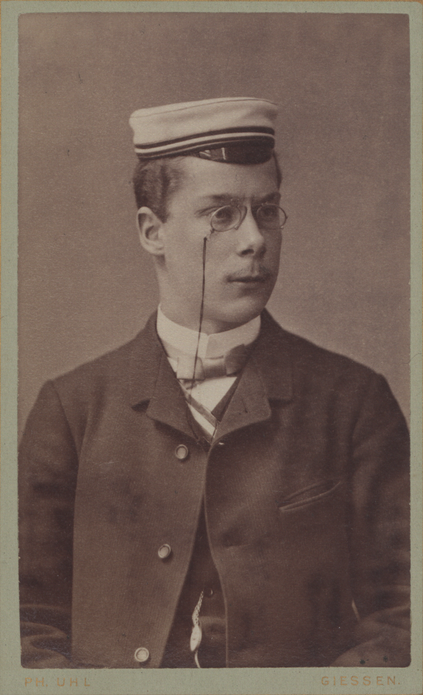 Portrait of Eberhard Vischer (1865-1946), photo